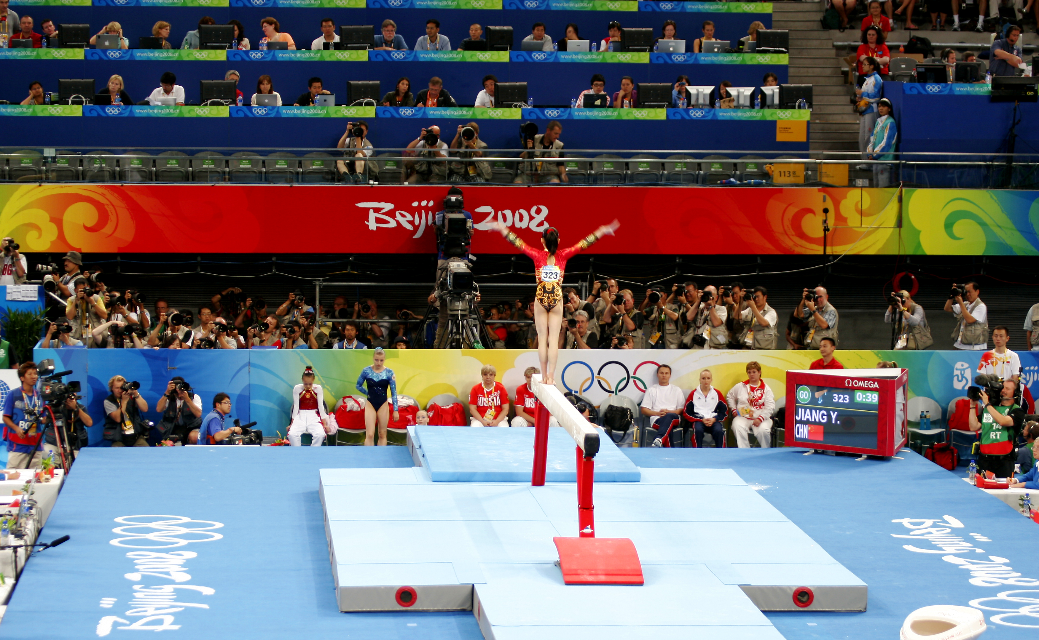 Chinese gymnast Jiang Yuyuan on the balance beam at the 2008 Summer Olympics